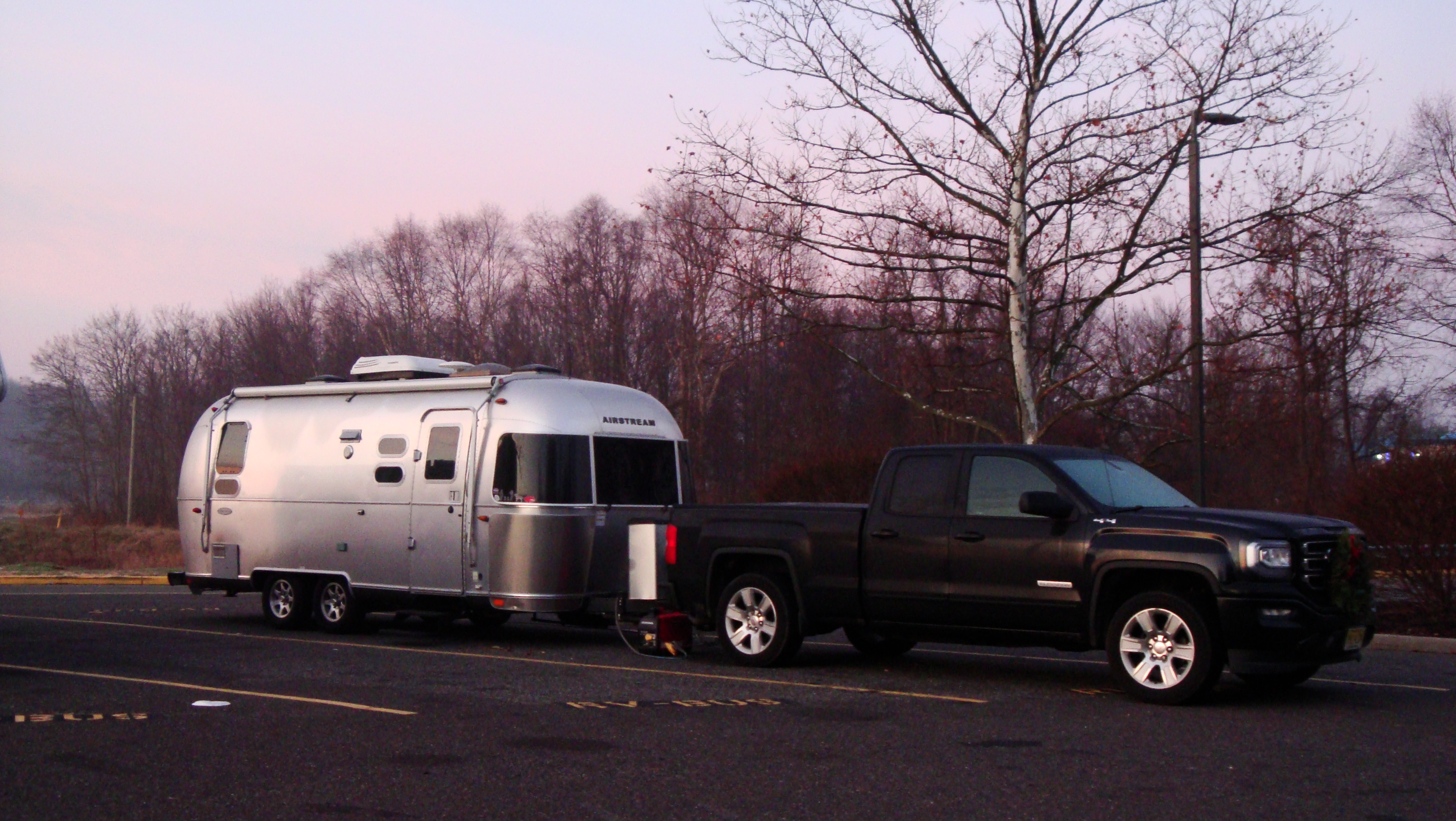 Modern Airstream (2016 Flying Cloud 23D) connected to its tow vehicle (GMC Sierra)